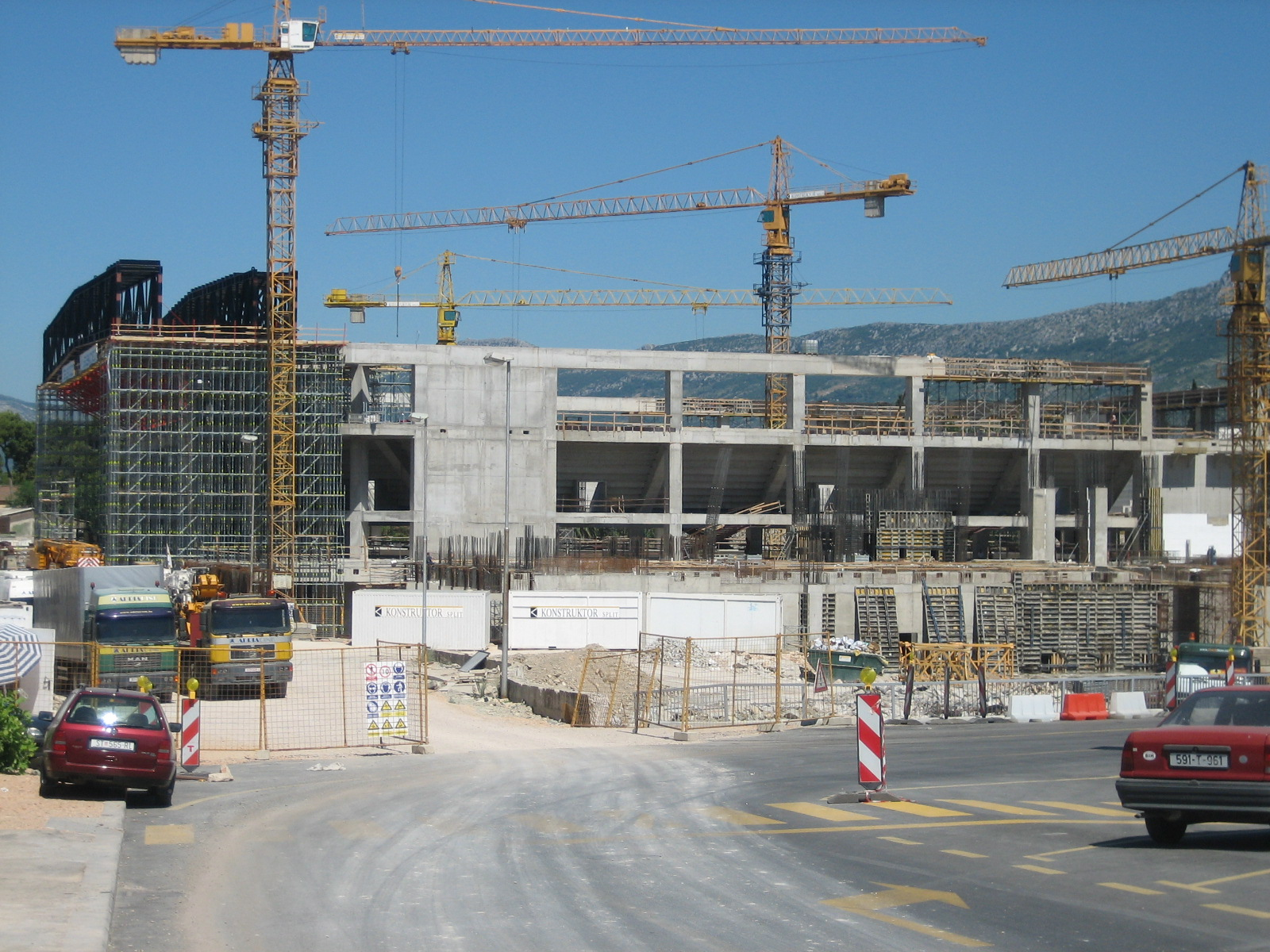 Split handball arena under construction